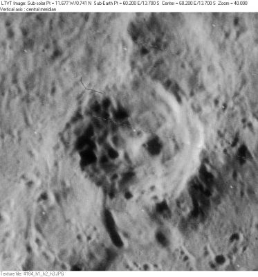 LO-IV-184H Lohse is just outside northwest rim of Vendelinus, whose floor is partially visible in the lower right. The faint 30-km diameter depression to the northeast of Lohse is Langrenus E.